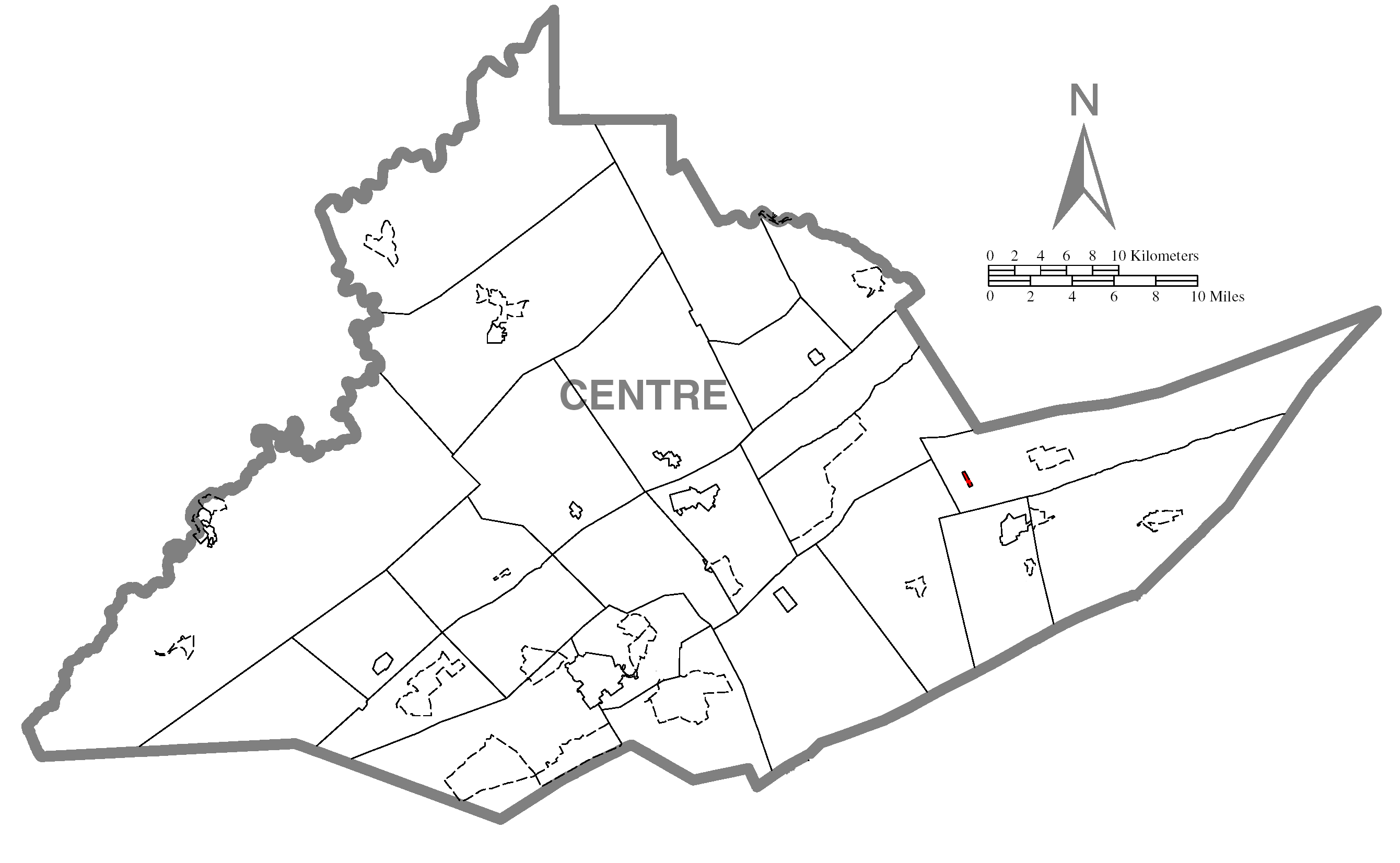 A map of Centre County showing Madisonburg, Pennsylvania (alternate) highlighted on the map.